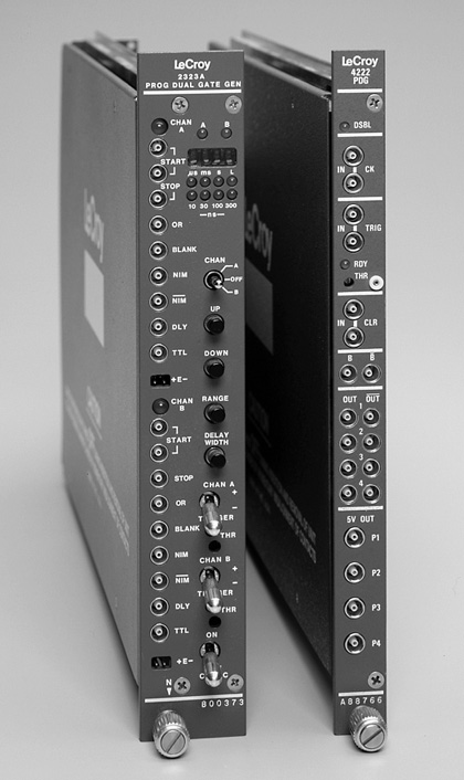 Electrical device for the big physics (CAMAC module) - Delay generator